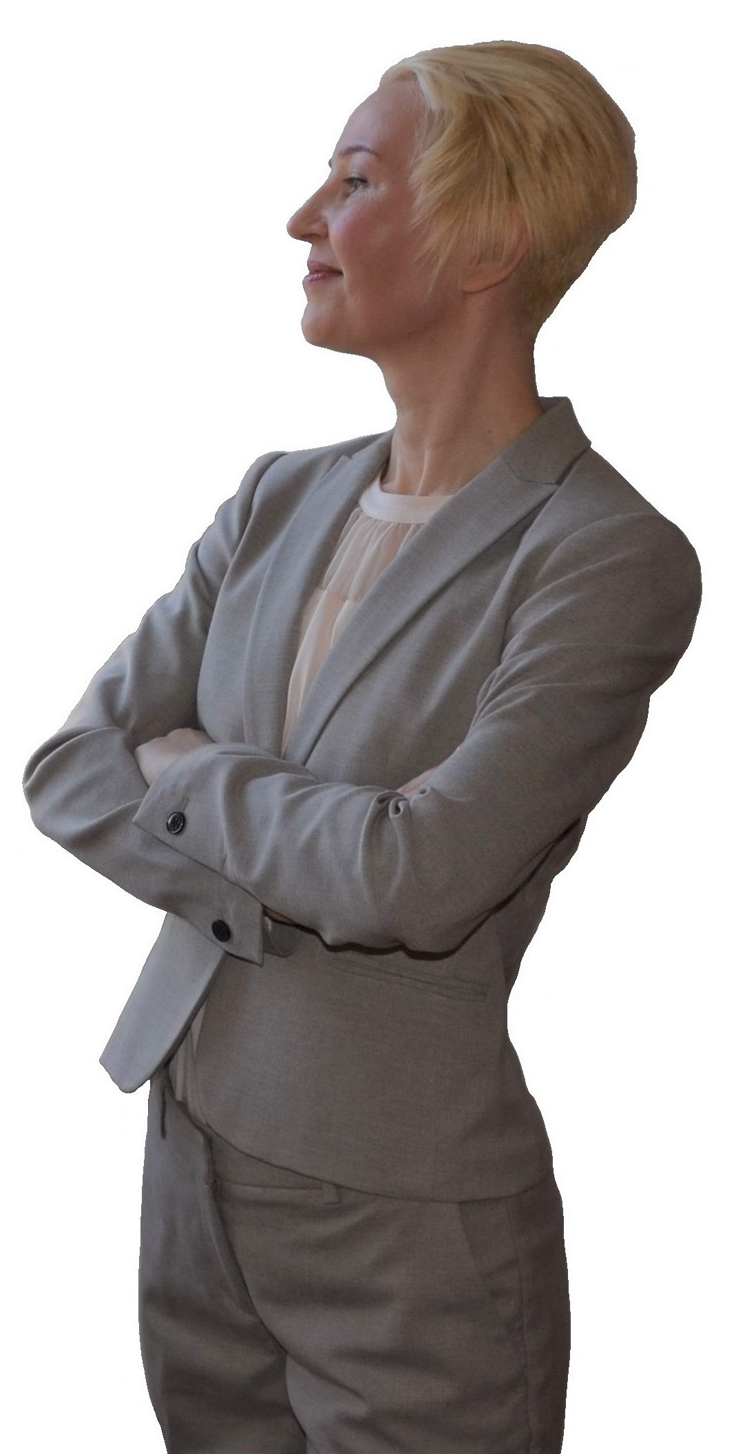 Snježana Kordić